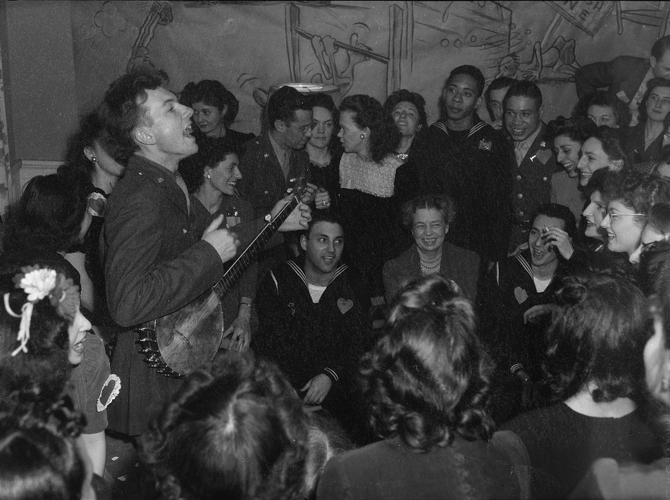 Noted folk singer Pete Seeger entertaining at the opening of the Washington labor canteen, sponsored by the United Federal Labor Canteen, sponsored by the Federal Workers of America, Congress of Industrial Organizations (CIO). First lady Eleanor Roosevelt seen at center. 1212 18th St. N.W., Washington, D.C.